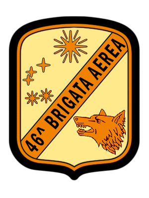 ensign of the 46ª Brigata Aerea (46th Air Brigade) of the Aeronautica Militare (Italian Air Force).